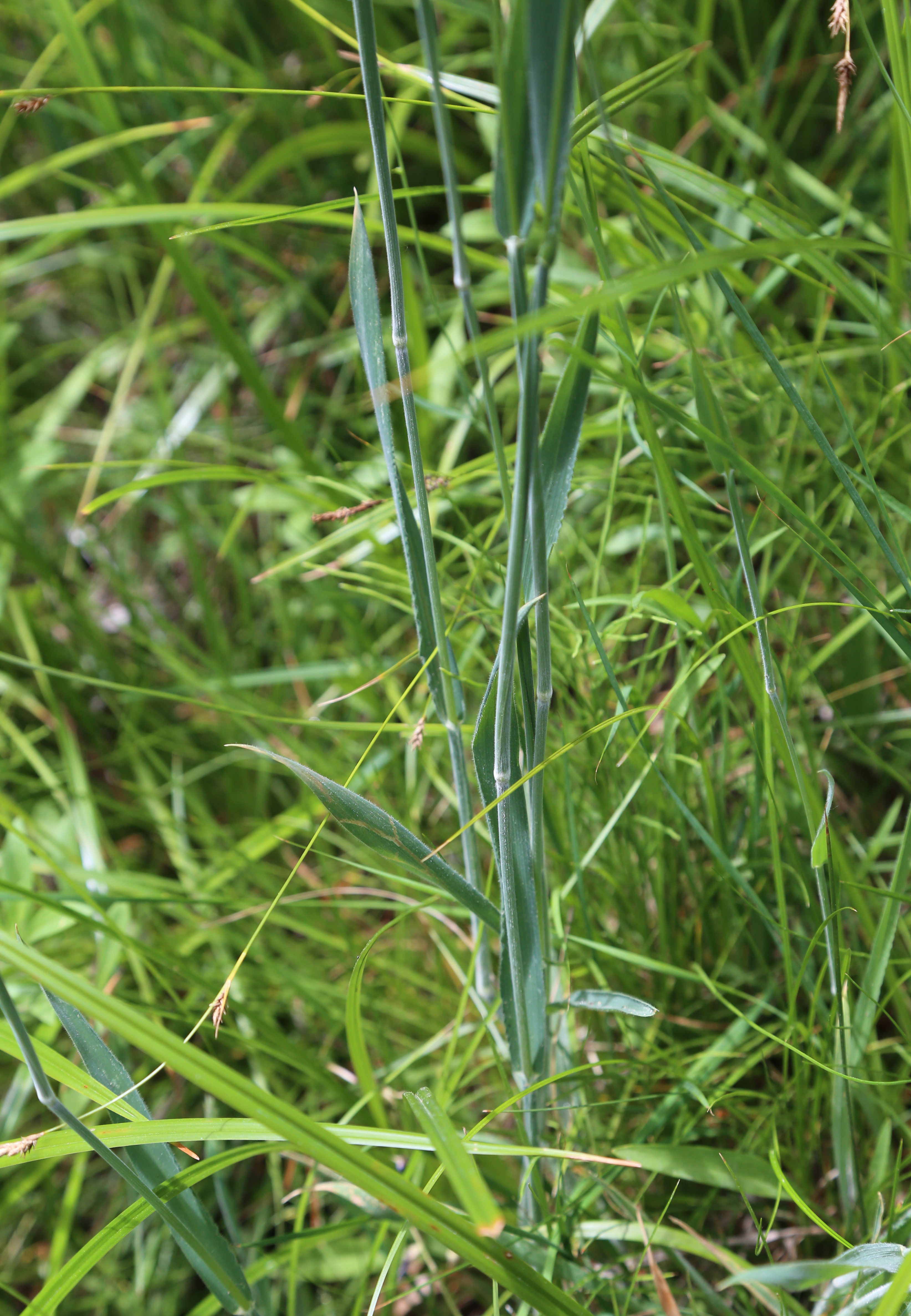 Trisetum wolfii grass, stems and leaves. Near Bishop Creek at 8,500 ft (2,600 m) in Aspendell, Inyo County California, USA.